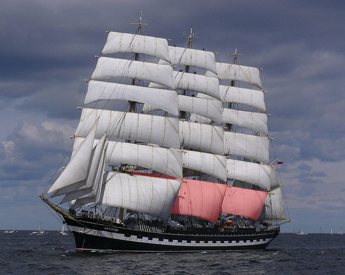 Krusenstern mainsails